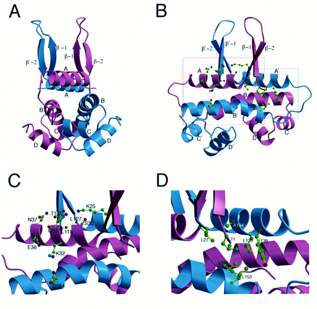 structure of the hexagonal Fis K36E homodimer